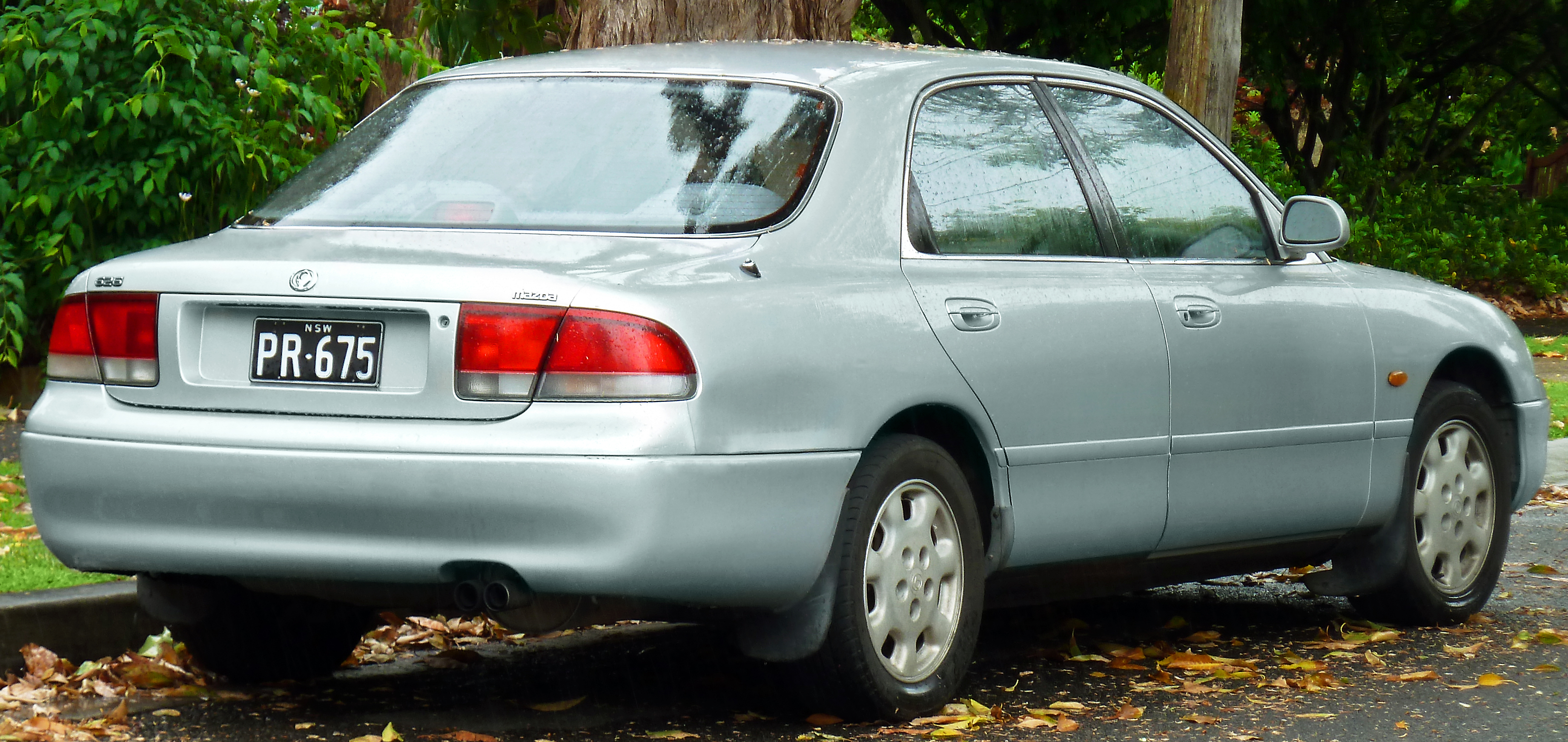 1993 Mazda 626 (GE) V6 sedan. Photographed in Roseville, New South Wales, Australia.